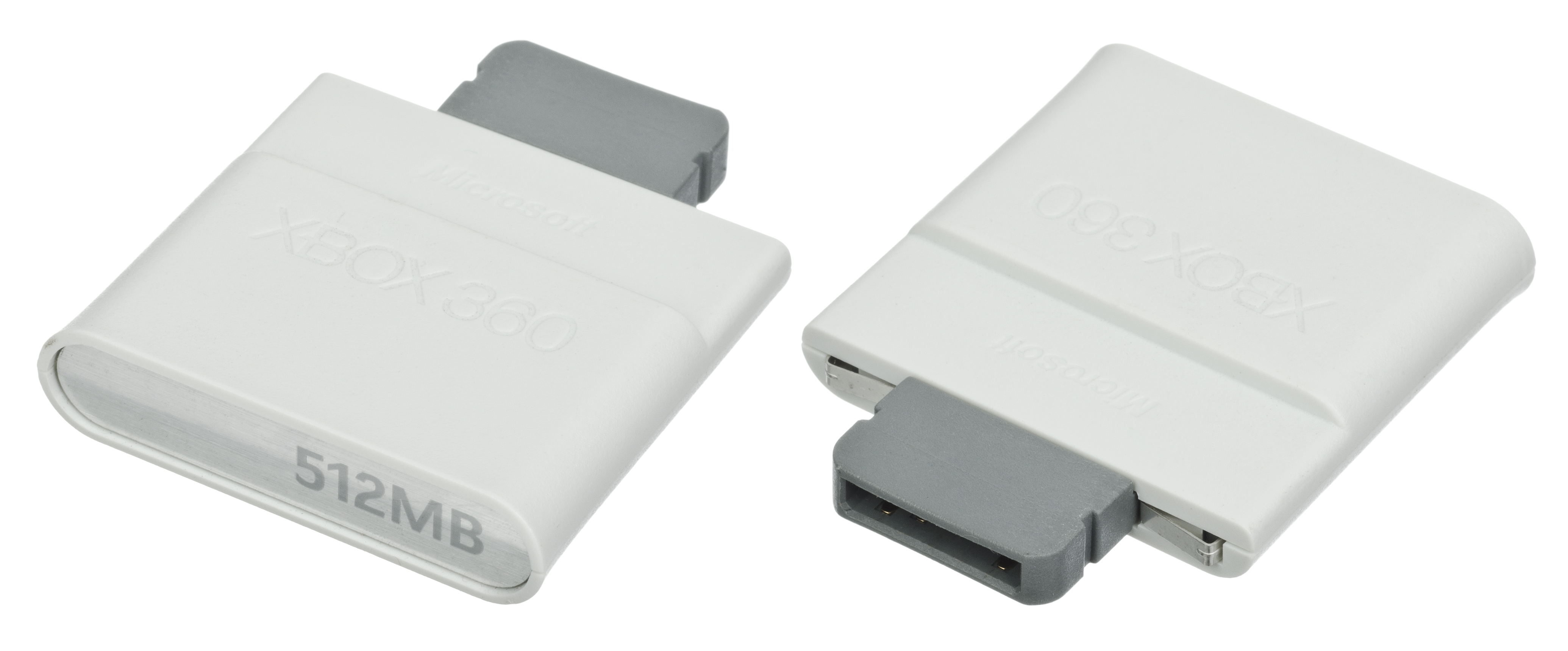 A 512MB memory card for the first generation of Xbox 360 consoles. These are used for game saves or holding small arcade/indie games. These were phased out as the hard drives became more common and the Arcade units started using built-in memory for game saves. The memory card ports were removed during the Xbox 360 casing redesign.